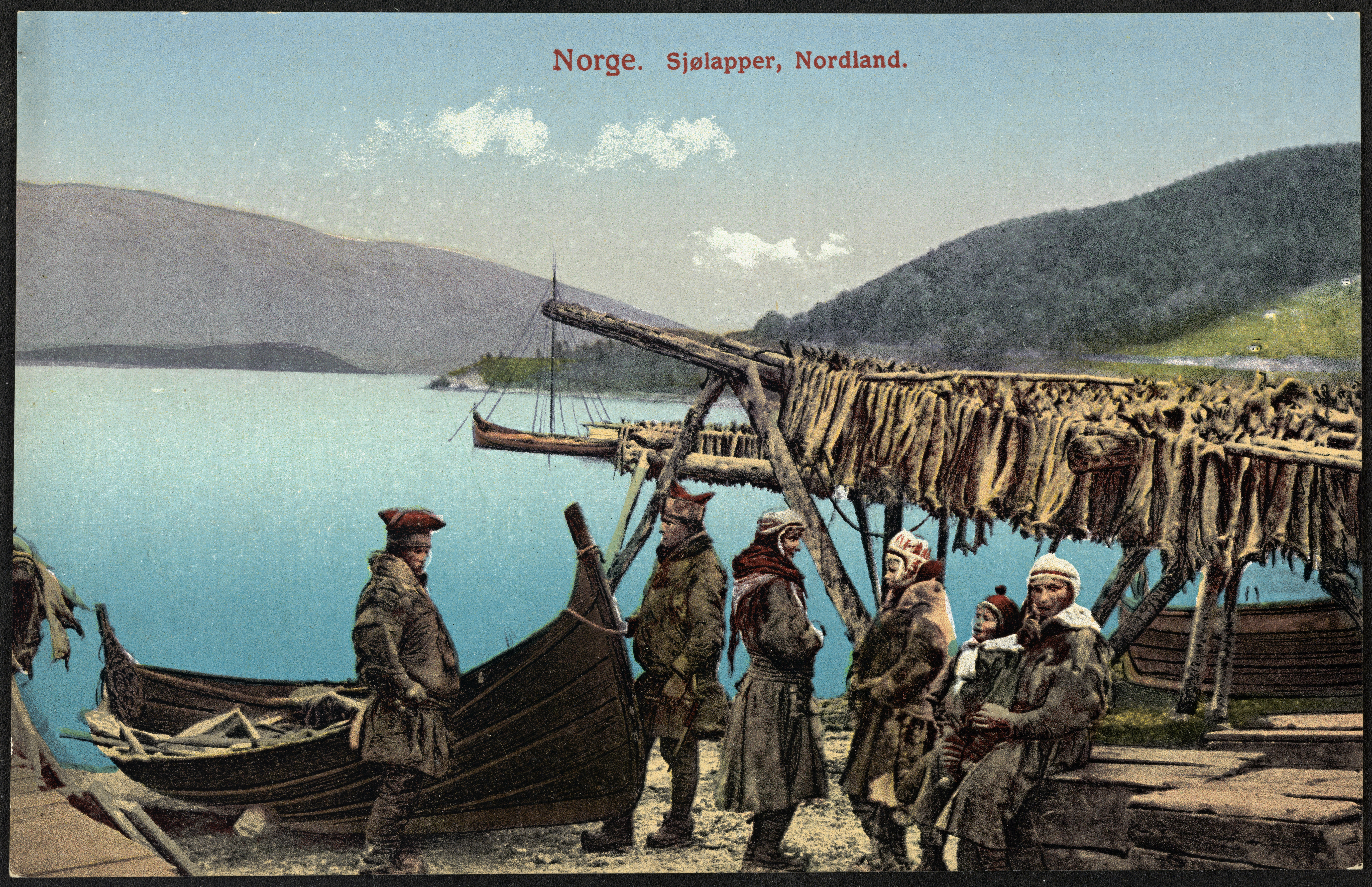 Image from "Postcards, Sami" , an album of 19 images uploaded to by Nasjonalbiblioteket (National Library of Norway) in 2016. The image on Flickr is marked with "No known copyright restrictions».